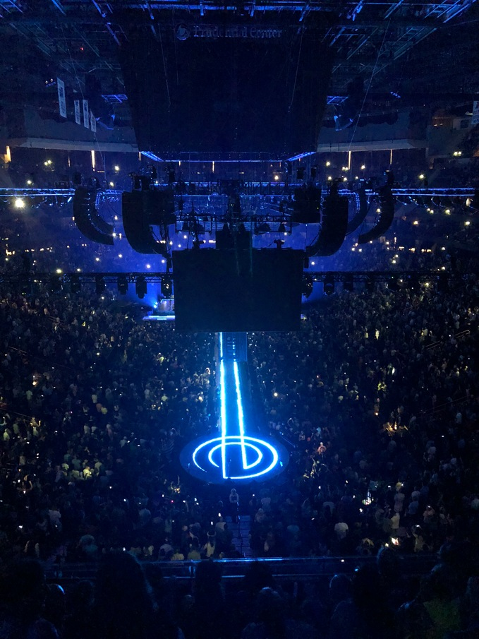 The video screen, sound system, and B-stage visible on U2's Experience and Innocence Tour during a performance at Prudential Center in Newark, NJ on June 29, 2018